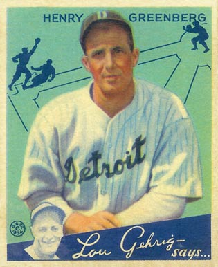 1934 Goudey baseball card of Henry "Hank" Greenberg of the Detroit Tigers #62. PD-not-renewed.